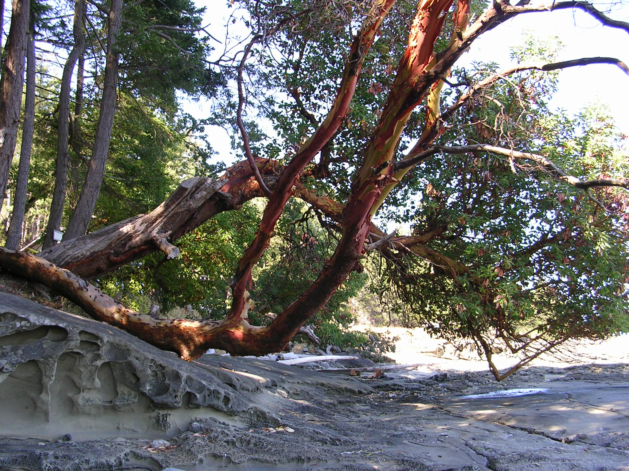 An arbutus tree on a sandstone beach. Taken by user:Clayoquot on Gabriola Island, British Columbia.